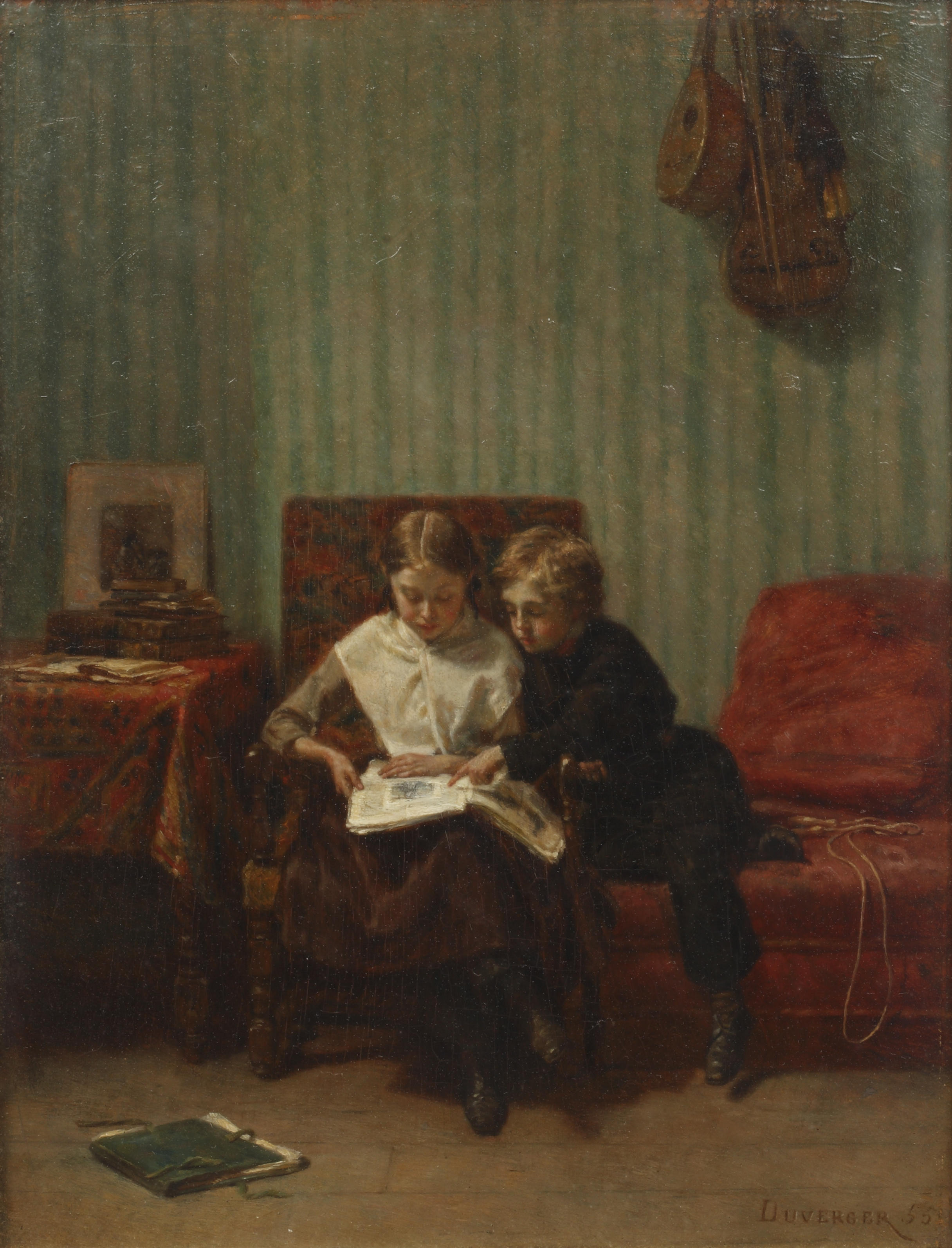 Two children reading in an interior